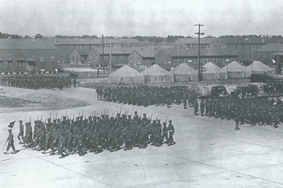 WWII scene at Brookley Army Air Field, Mobile, Alabama